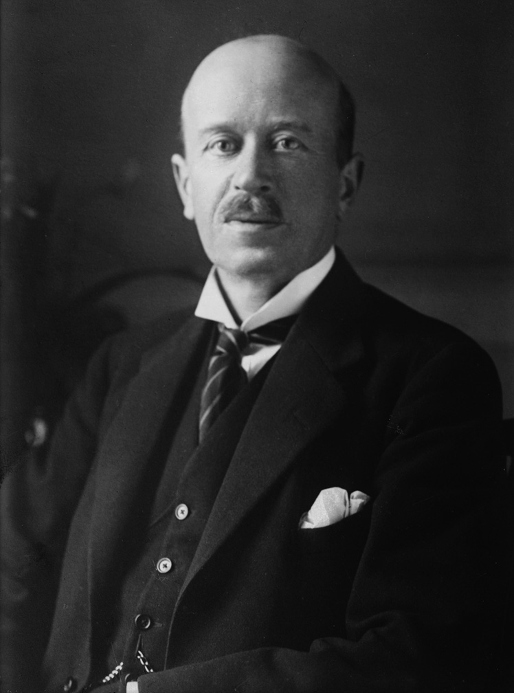 Wothington Evans MP